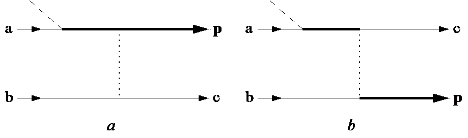 For ionization document.